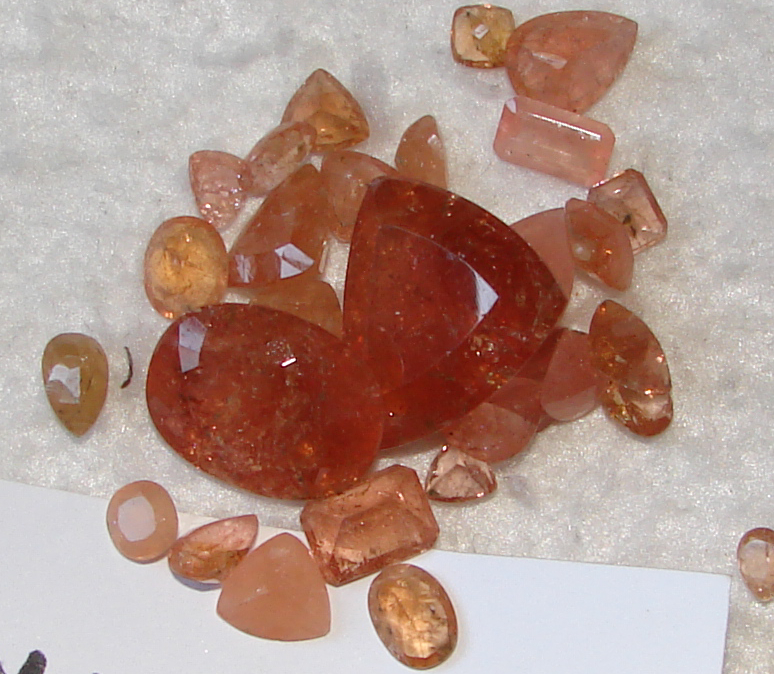 Eosphorite cut from Brazil. Gem cutting by Afonso Marques